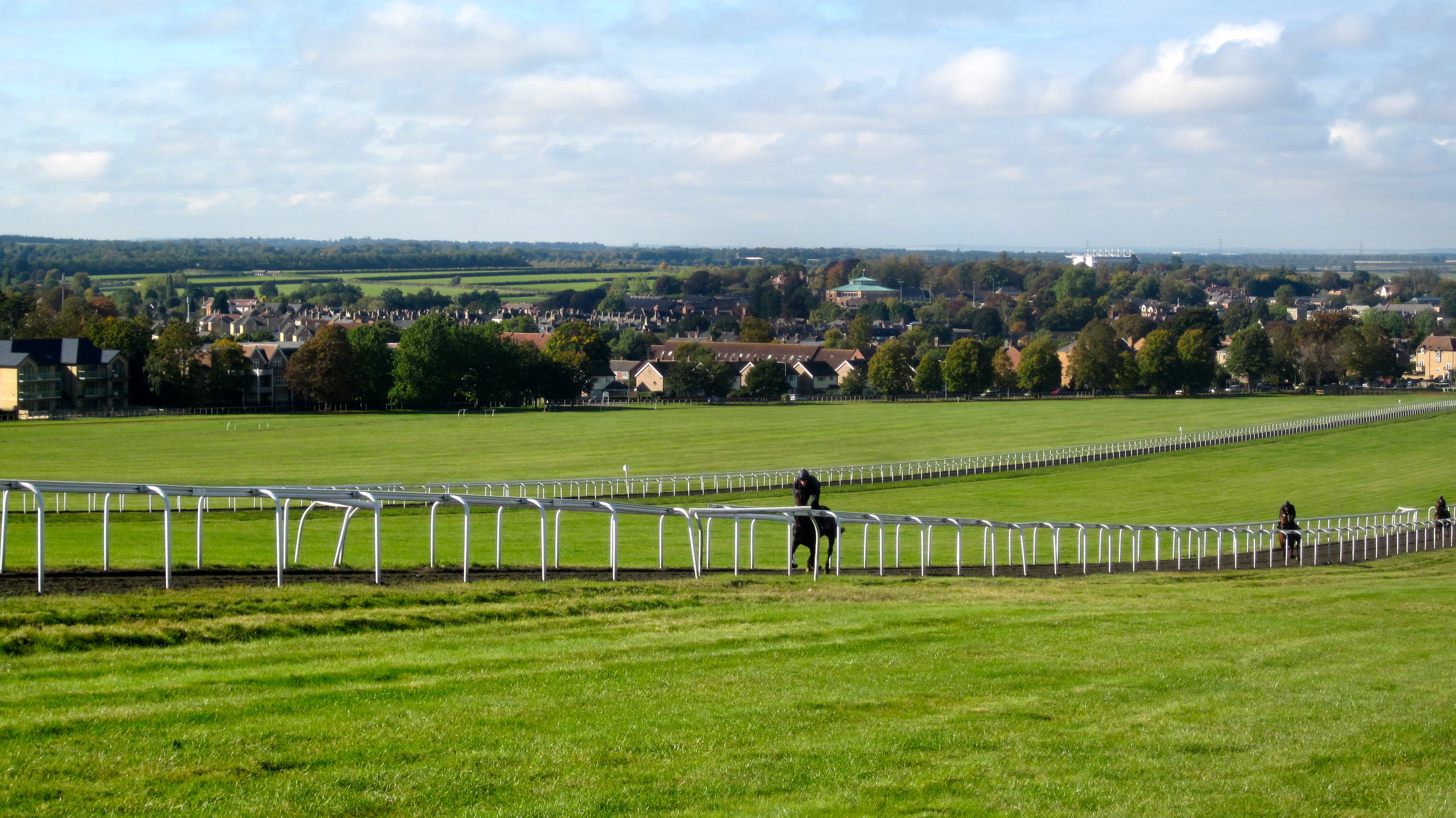 A view of Newmarket, Suffolk, UK, showing horses galloping up part of the Long Hill training grounds, with Tattersalls auctioneers, racing stables, studs and the Rowley Mile Racecourse in the background